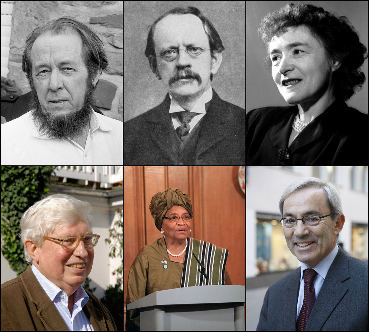 Collage Christian Nobel laureates. According to 100 Years of Nobel Prizes a review of Nobel prizes award between 1901 and 2000 reveals that (65.4%) of Nobel Prizes Laureates, have identified Christianity in its various forms as their religious preference. Overall, Christians have won a total of 78.3% of all the Nobel Prizes in Peace, 72.5% in Chemistry, 65.3% in Physics, 62% in Medicine, 54% in Economics and 49.5% of all Literature awards. According to study that done by University of Nebraska–Lincoln in 1998 found that 60% of Nobel prize laureates in physics from 1901 to 1990 had a Christian background According of Scientific Elite: Nobel Laureates in the United State by Harriet Zuckerman, a review of American Nobel prizes winners awarded between 1901 and 1972, 72% of American Nobel Prize Laureates, have identified from Protestant background. Overall, Protestant have won a total of 84.2% of all the American Nobel Prizes in Chemistry, 60% in Medicinee, 58.6% in Physics, between 1901 and 1972. Anyone can use these original photos themselves among others and make another collage of (Christians) themselves or remix as they wish, as long as they give the correct source and usage/Copyright given. Dont delete the photos, if one becomes unusable due to copyright, please dont delete, just replace the photo or i will.